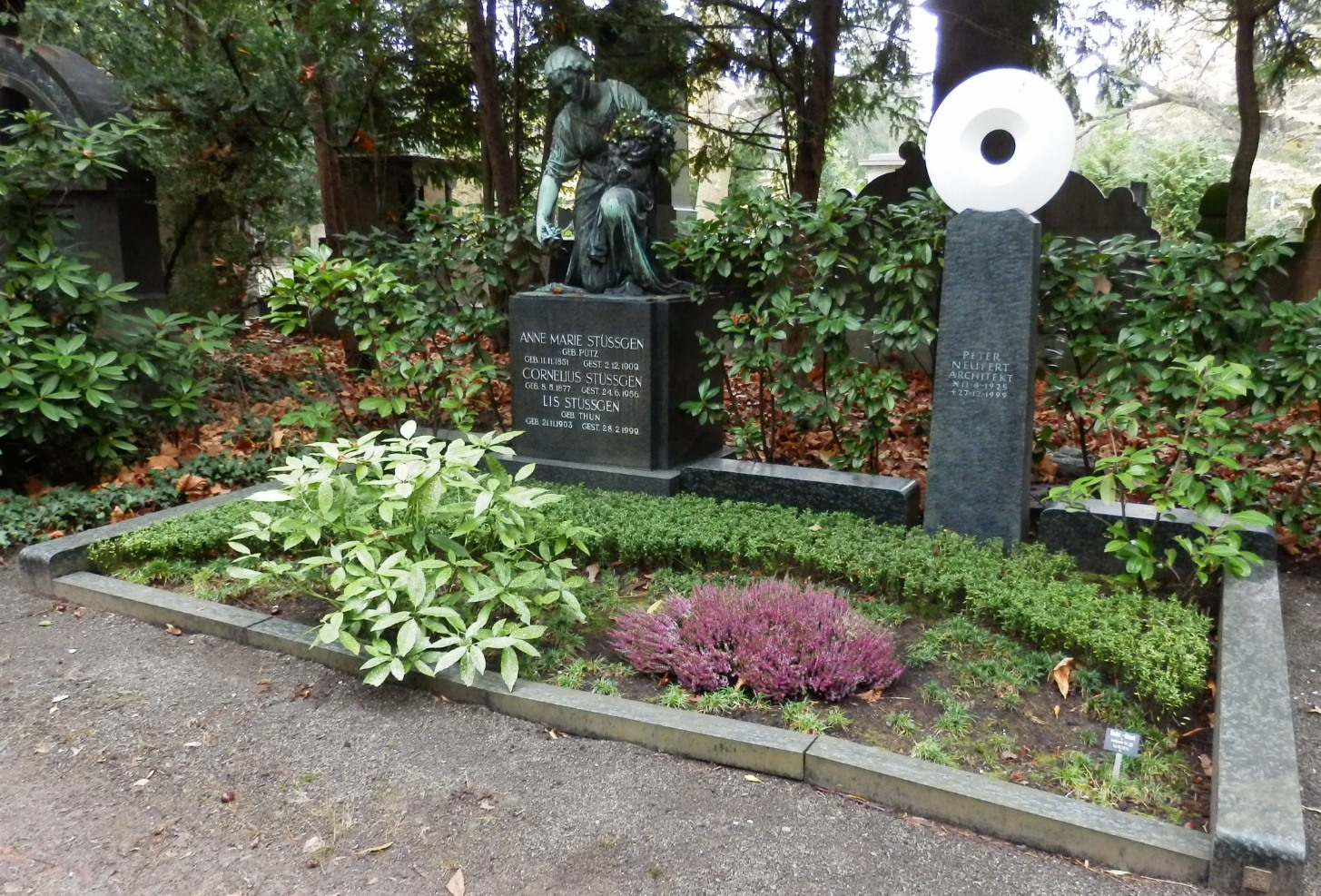 Peter Neufert u. Familie Cornelius Stüssgen - Friedhof Melaten (Köln)